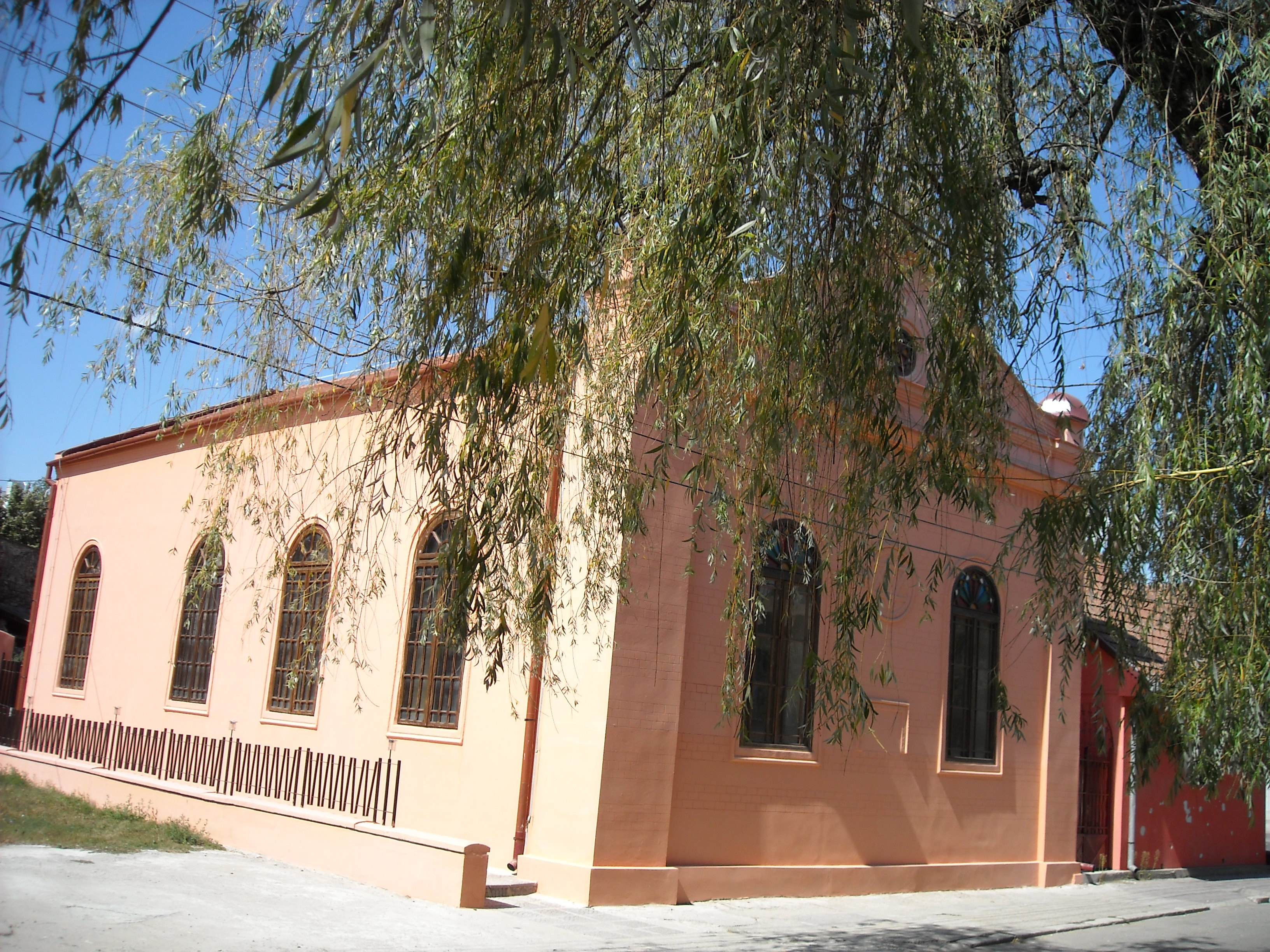 synagogue in Orăştie (Szászváros, Broos)